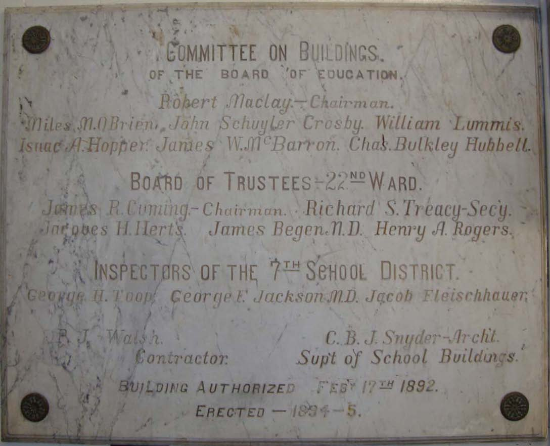 Plaque, inside the main entrance, old P.S. 9 at West End Ave, Manhattan, New York